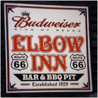 Sign for "Elbow Inn"